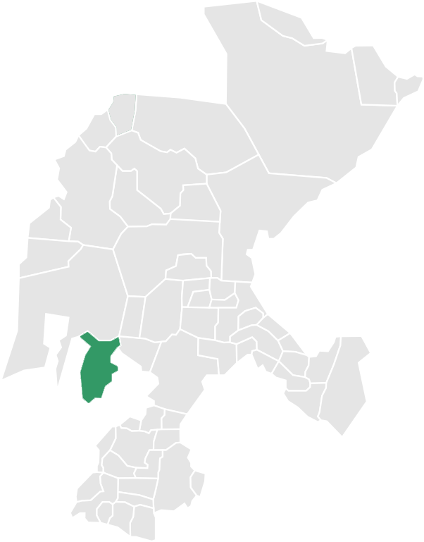 Map of the Municipality of Monte Escobedo in Zacatecas, México.